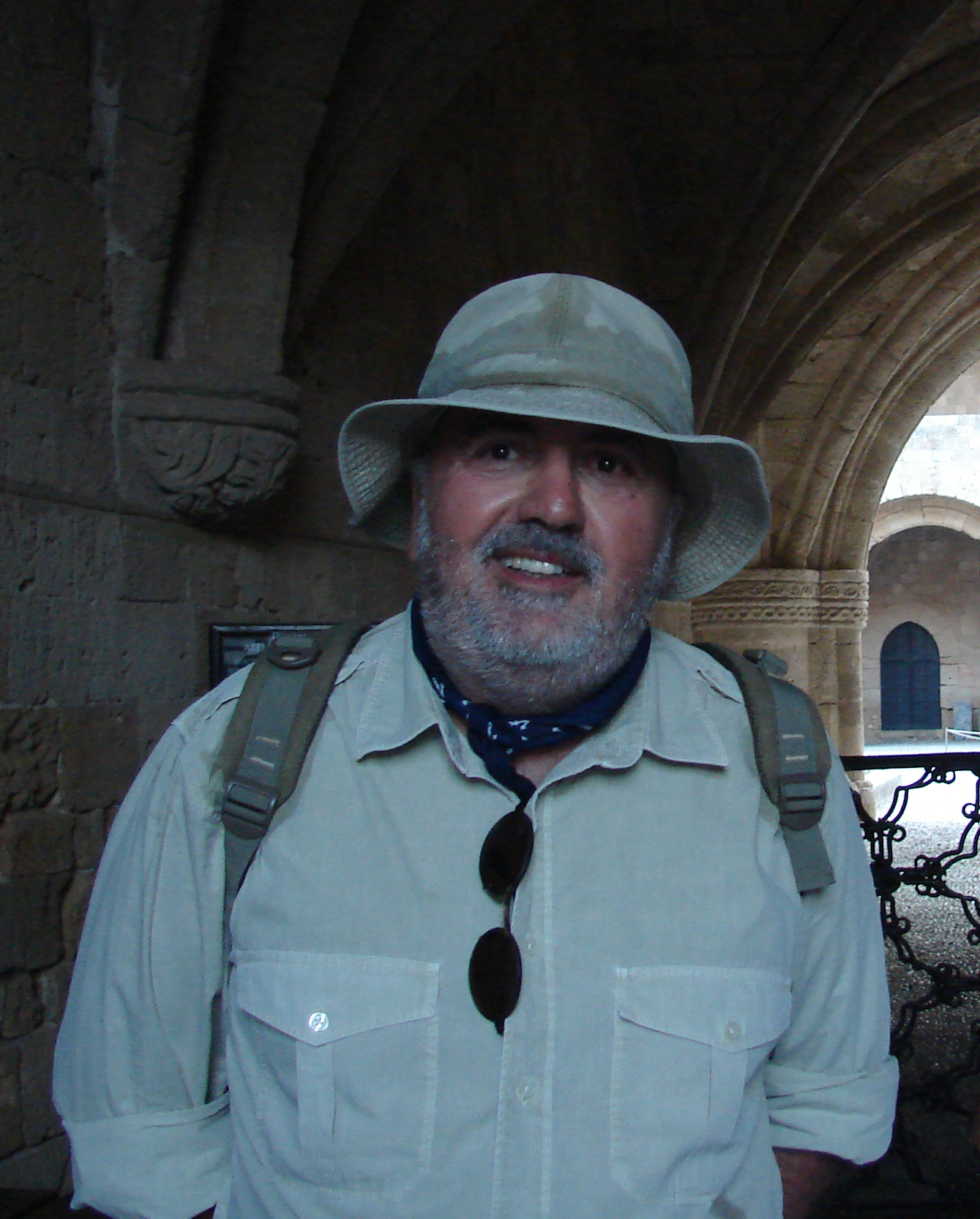 A picture of writer Hikmet Temel Akarsu, 2014.